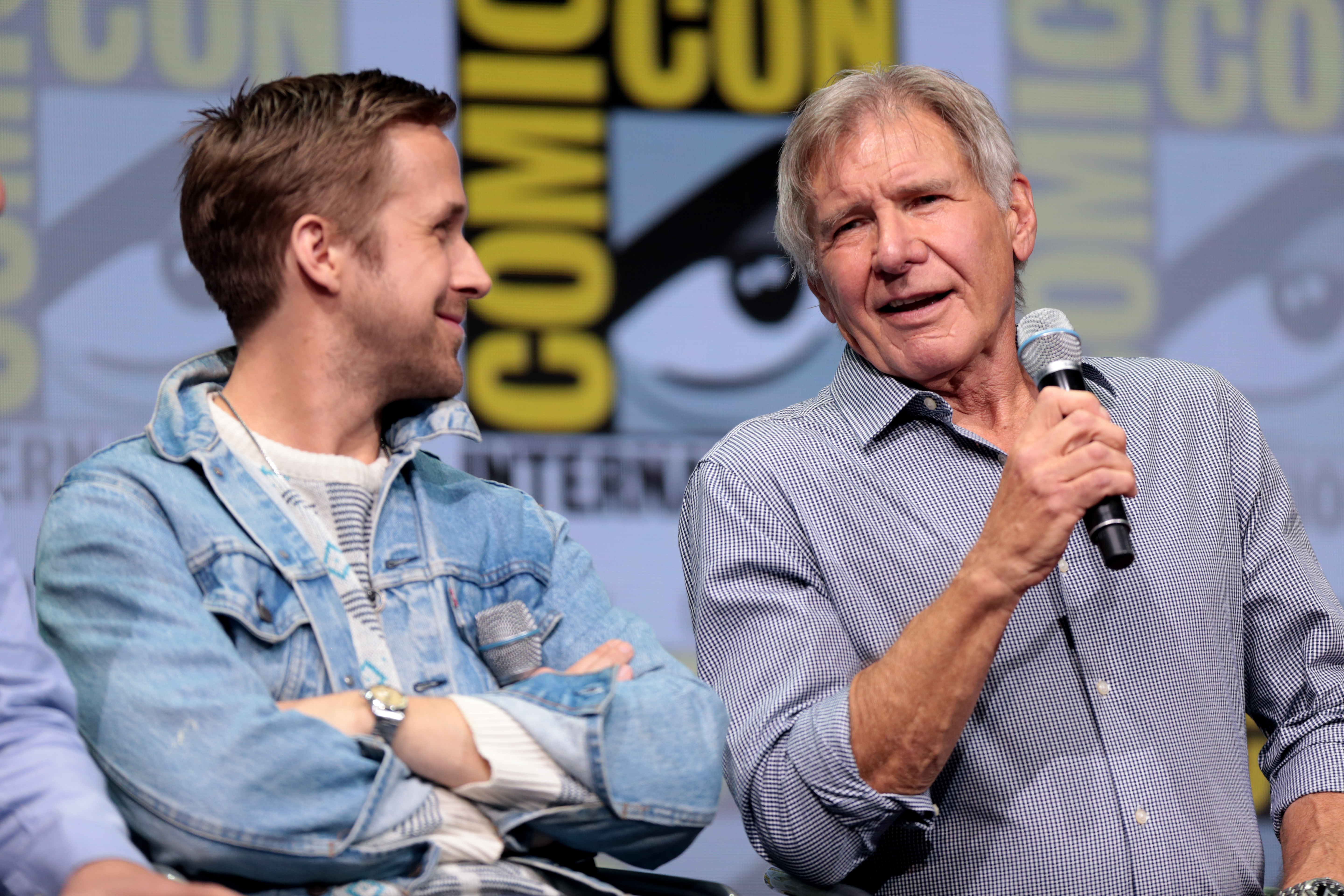 Ryan Gosling and Harrison Ford speaking at the 2017 San Diego Comic Con International, for "Blade Runner 2049", at the San Diego Convention Center in San Diego, California.